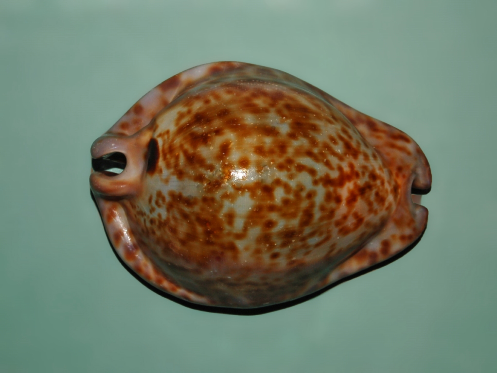 Trona stercoraria - Senegal